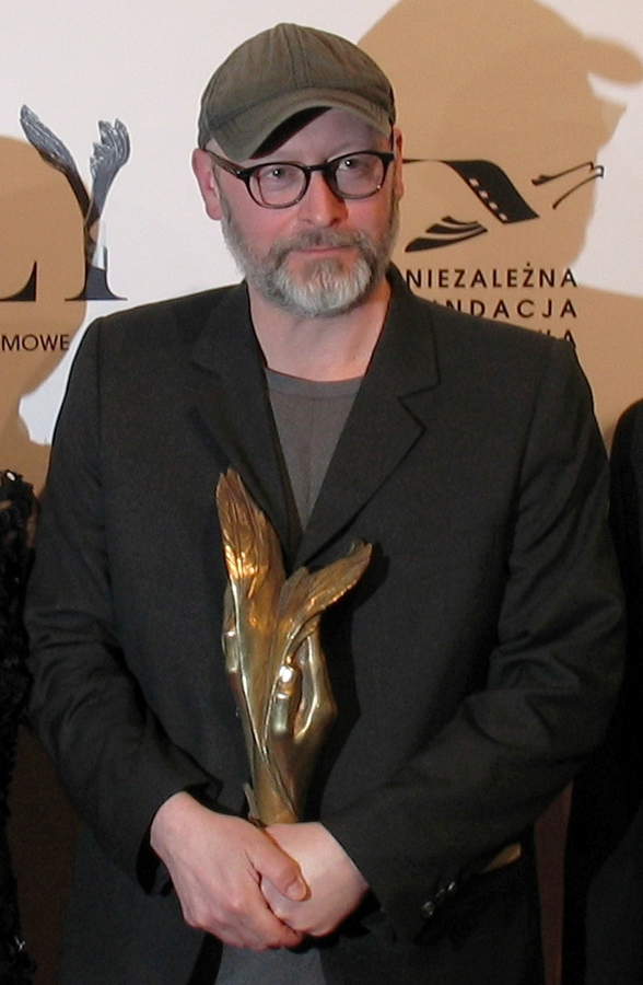 Wojciech Smarzowski holds of his "Orzel", Polish movie award, backstage at the 14rd Polsh Academy Awards, in Warsaw. Smarzowski won Audience Award for his film "Róża".